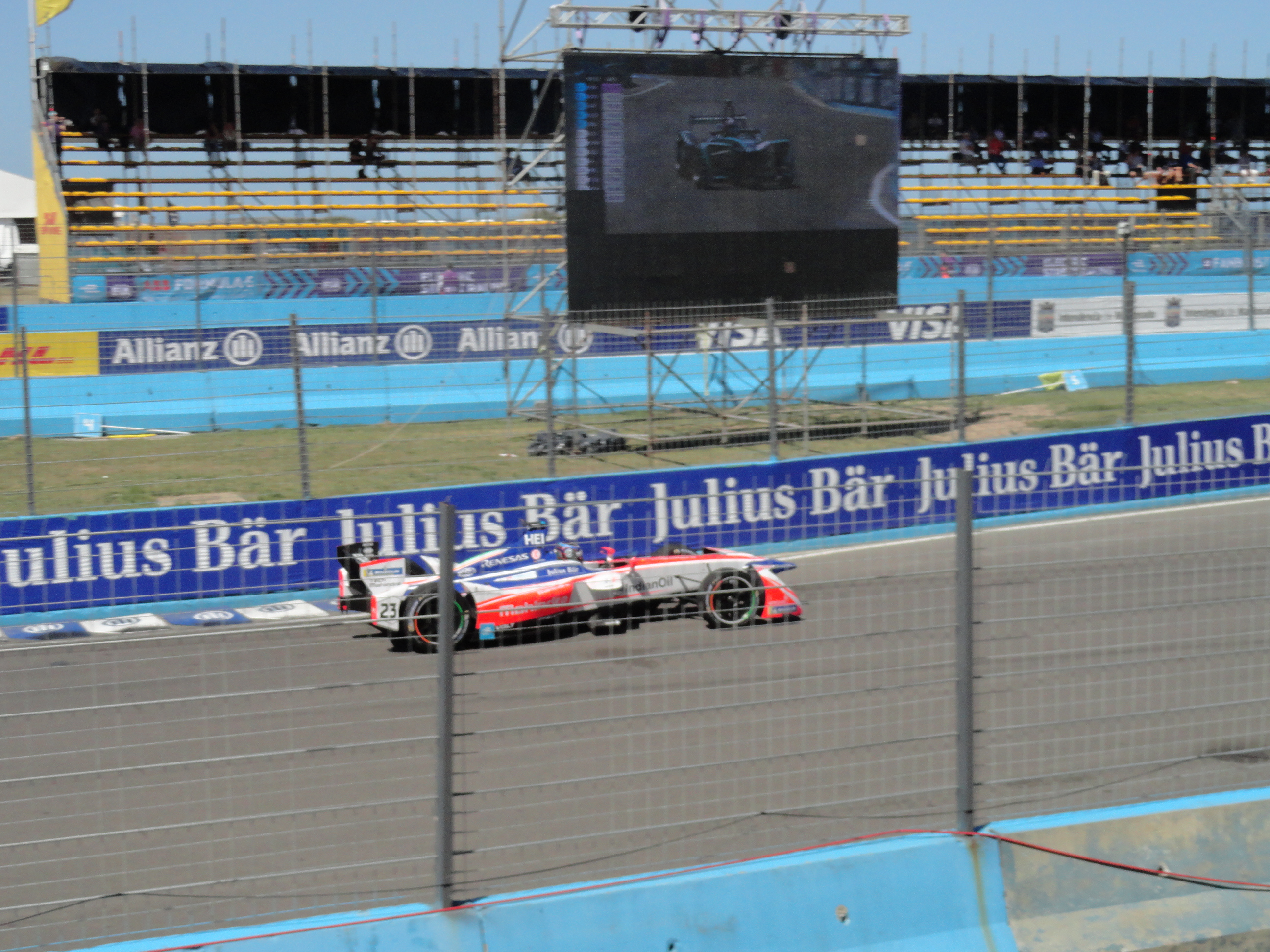 Qualifying at the 2018 Punta del Este ePrix.